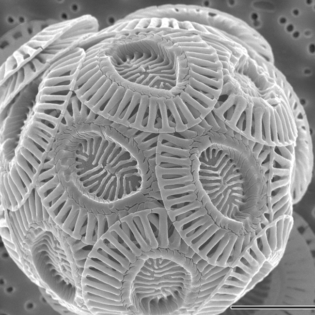 Emiliania huxleyi - single-celled marine phytoplankton that produce calcium carbonate scales (coccoliths). A scanning electron micrograph of a single coccolithophore cell.